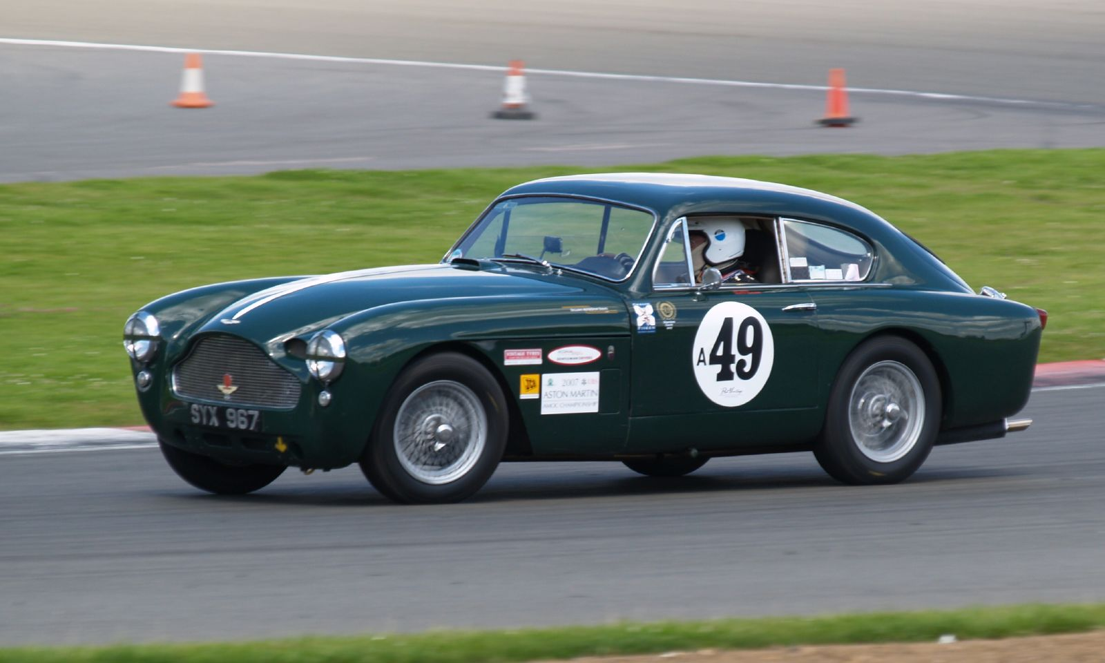 John Gross drives an Aston Martin DB MkIII car in the Roy Salvadori Aston Martin race, at the Silverstone Classic race meeting, July 2007.